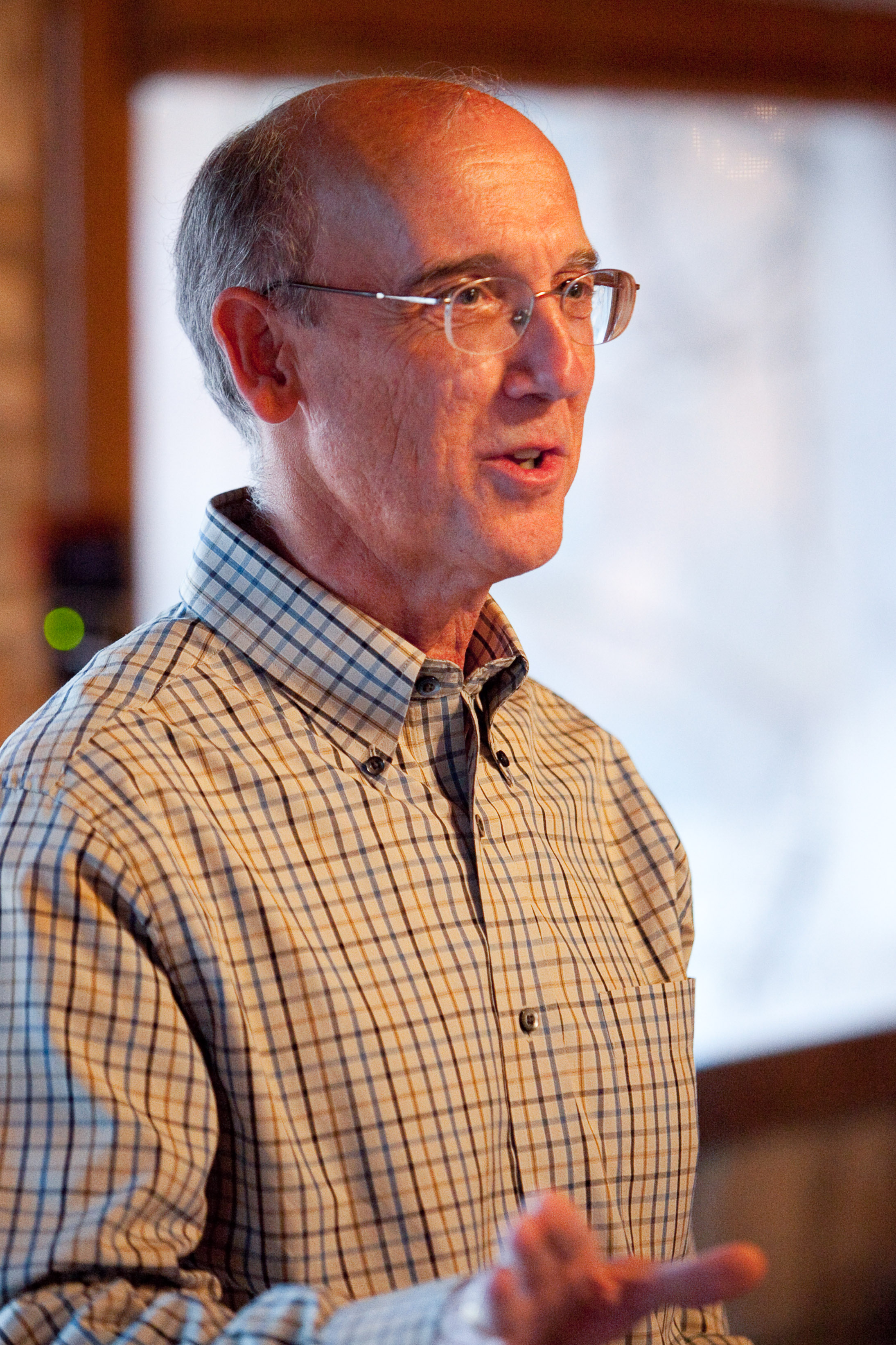 Donald H. Baucom teaching